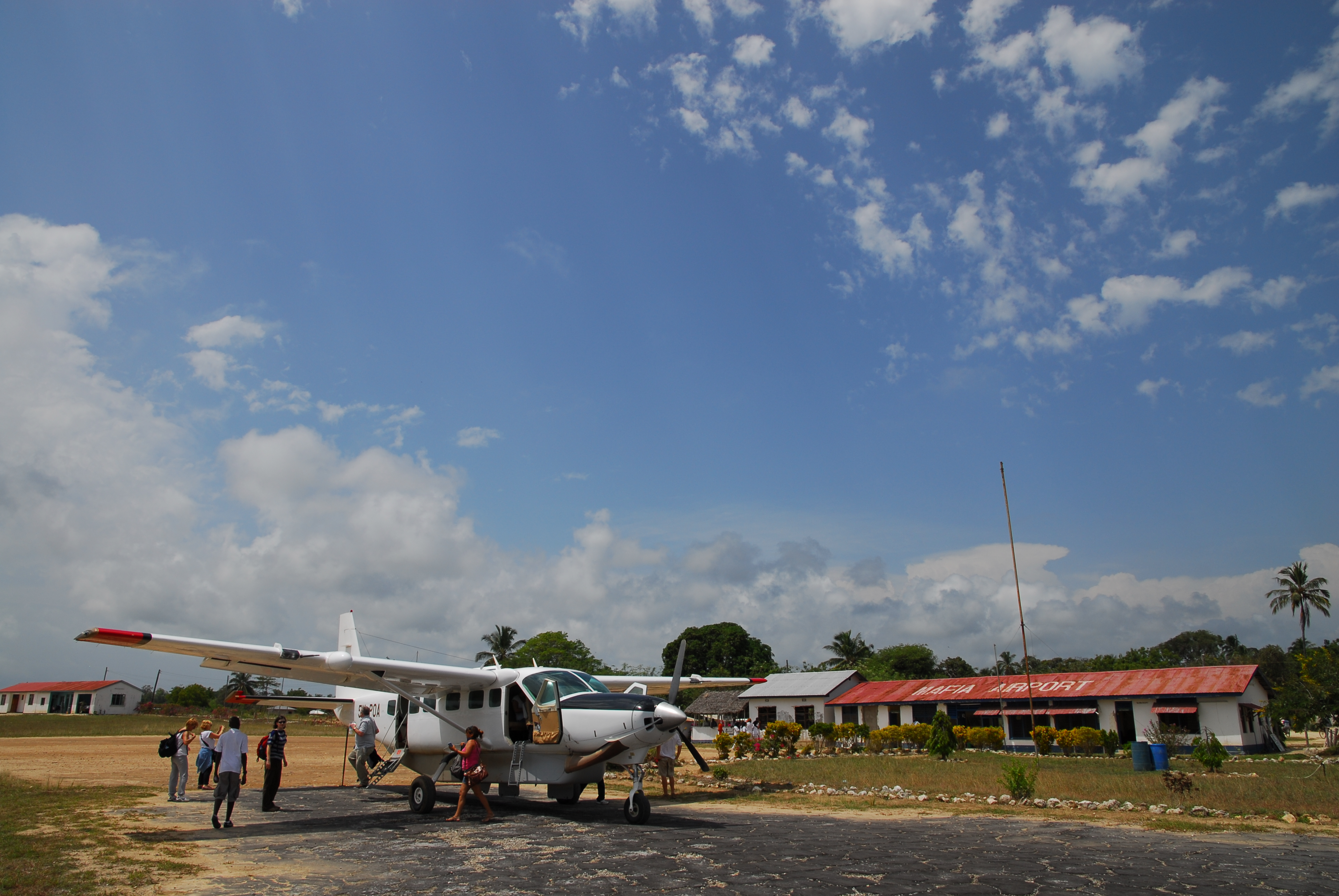 The airport of Mafia Island, Tanzania, East Africa